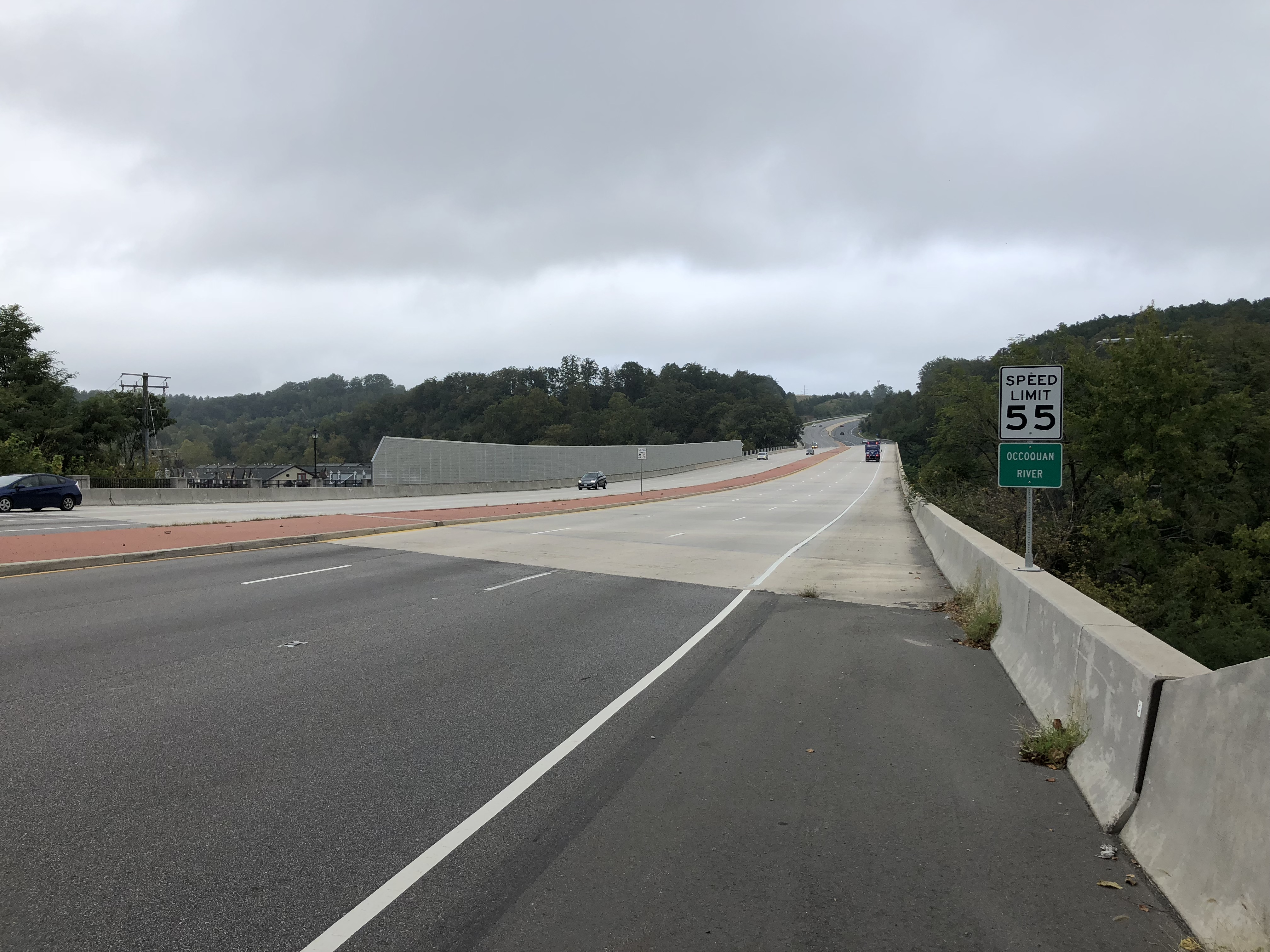 View north along Virginia State Route 123 (Gordon Boulevard) at Commerce Street in Occoquan, Prince William County, Virginia